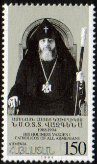 Stamp of Armenia (1995): "His Holyness Vazken I Catholicos of all Armenians"